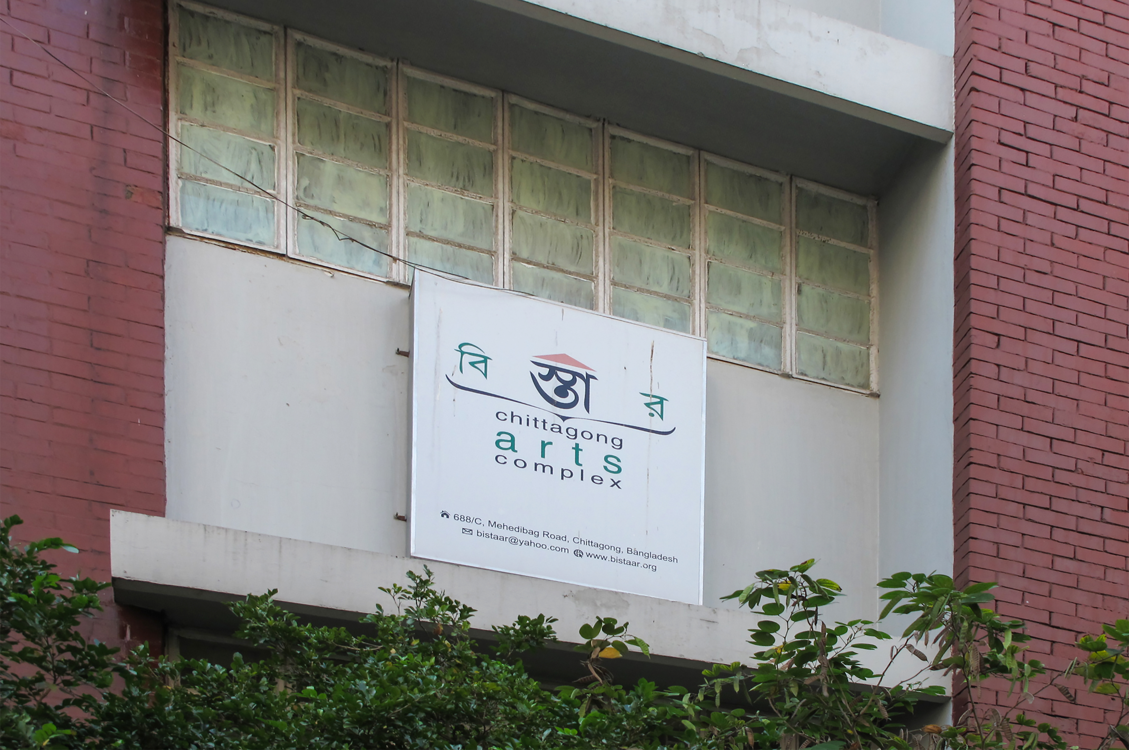 Bistaar-Chittagong Arts Complex, banner